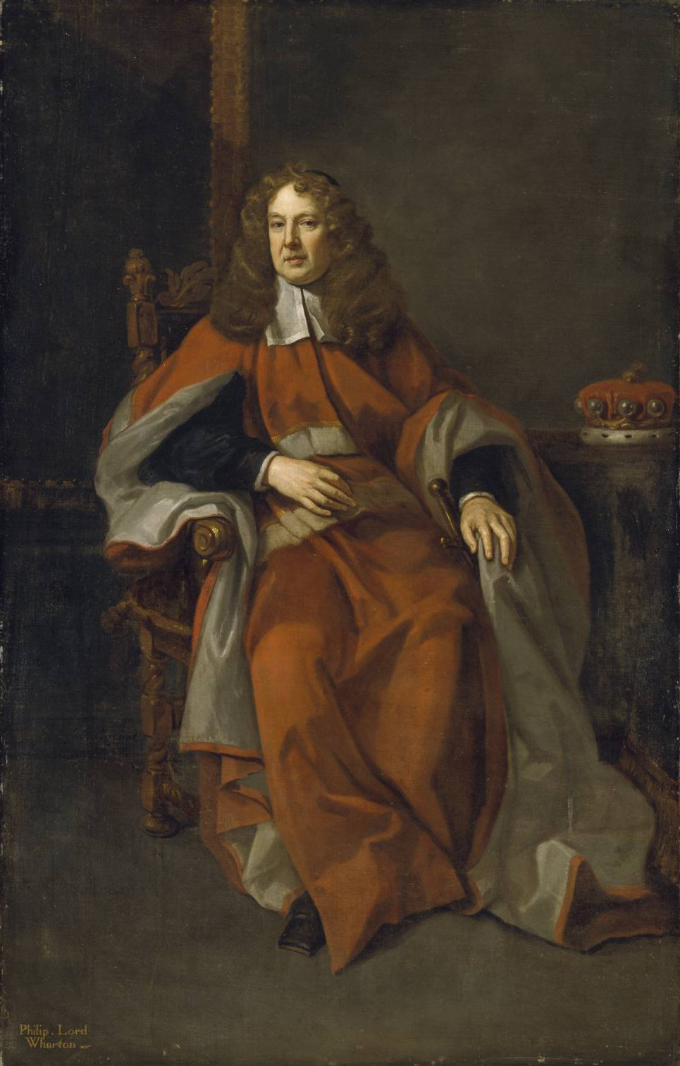 Portrait of Philip Wharton, 4th Baron Wharton (1613-1696)